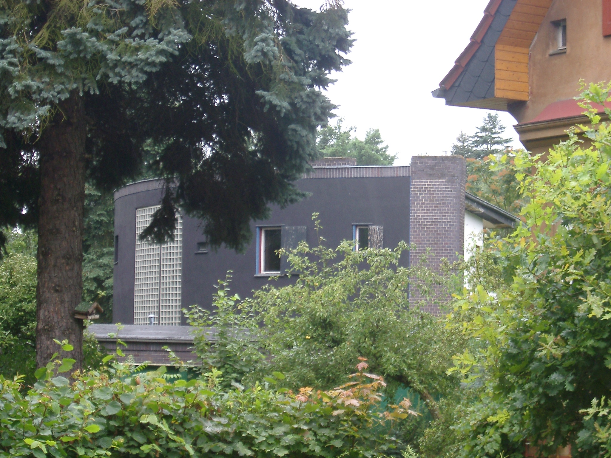 Residential building by Bruno Taut in Dahlewitz, near Berlin